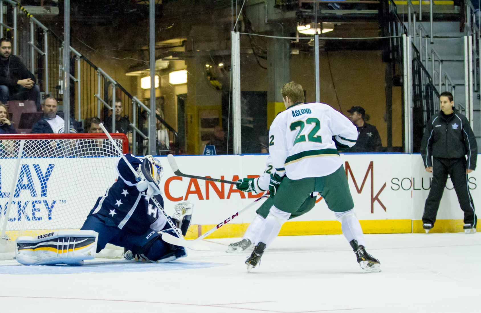 AHL Skills web (41 of 77)